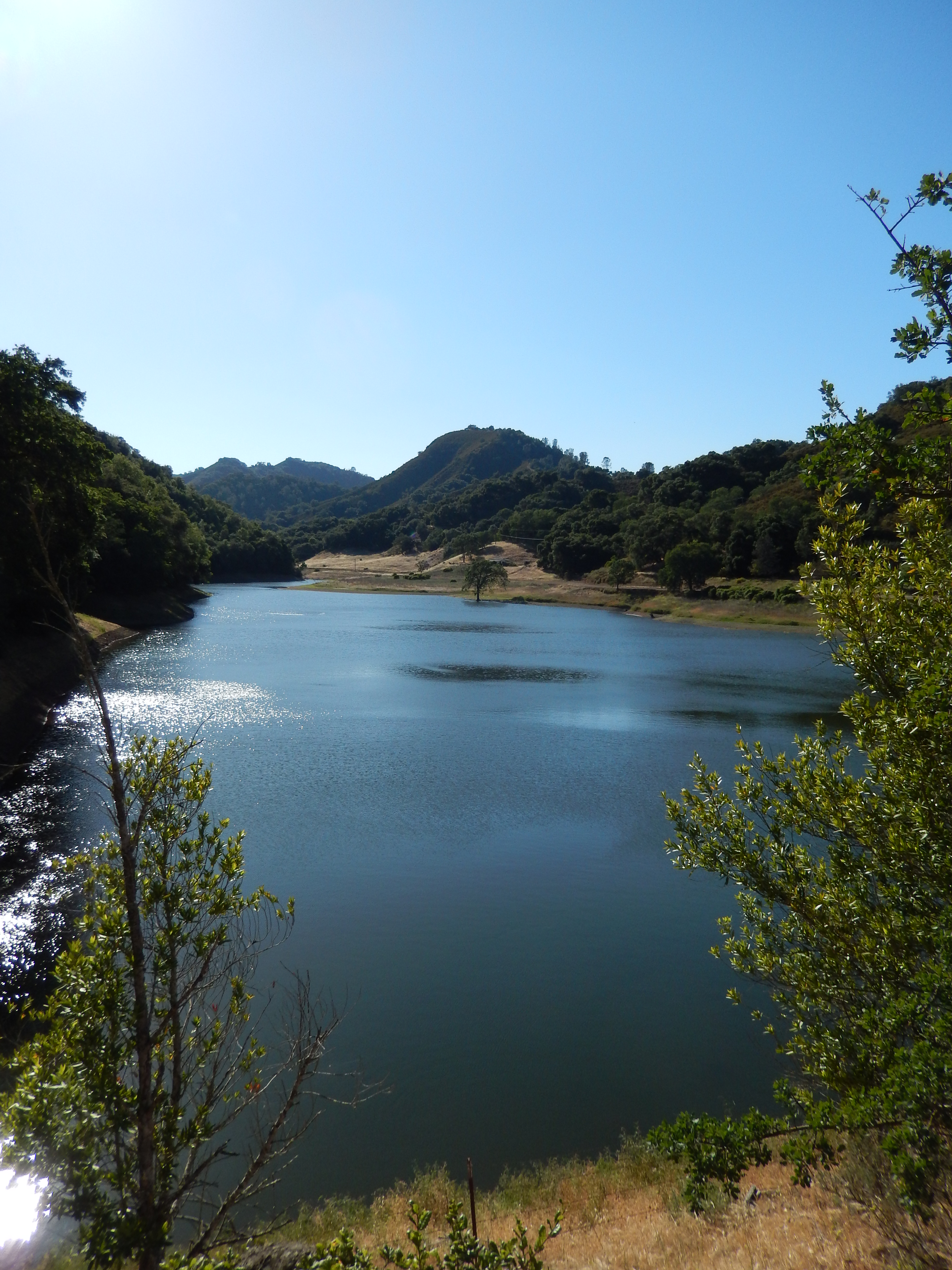 View of Eastman Canyon Creek along Uvas Road near Morgan Hill, California.